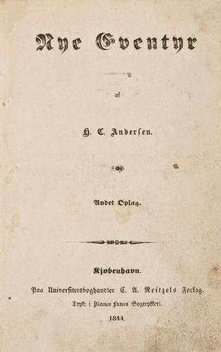 Cover of the first edition of Nye Eventyr, a collection of four fairy tales written by Hans Christian Andersen. Among these four tales are "The Ugly Duckling" and "The Nightingale", which went on to become world-wide classics. The book was first published by C. A. Reitzel on 10 November 1843, although the cover states the year after that, which was not unusual at that time.